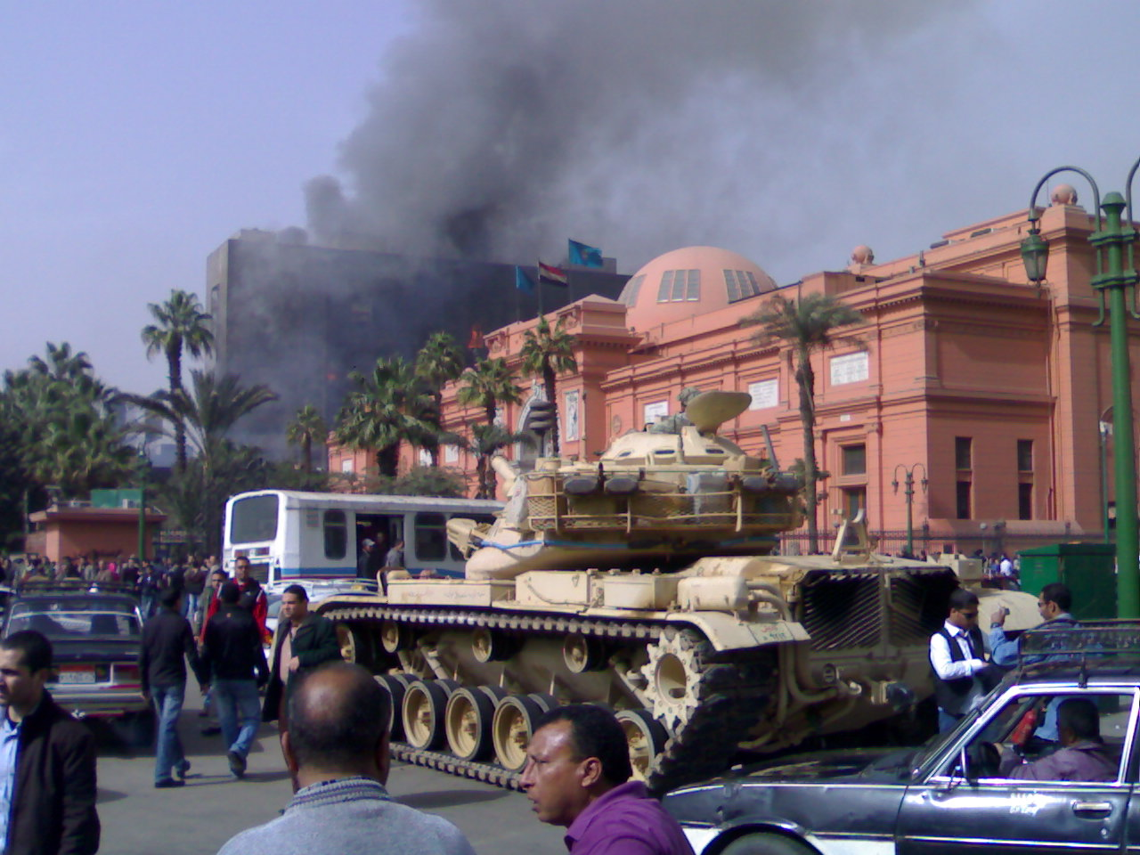 Egyptian Revolution, Jan 29th. NDP building still burning.